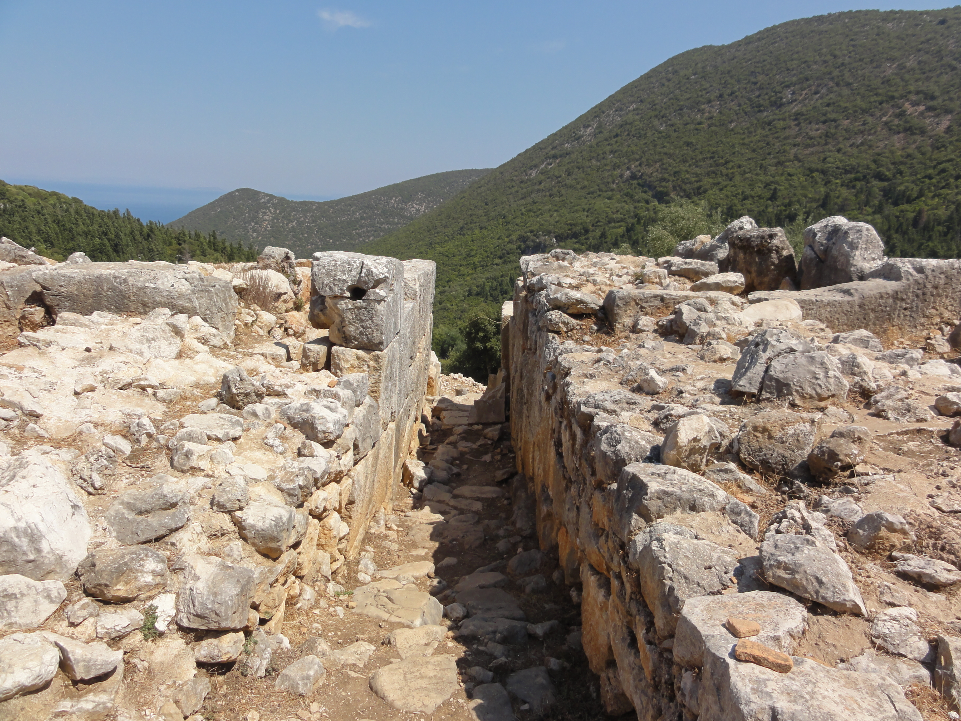 Photographs taken in Kefalonia.